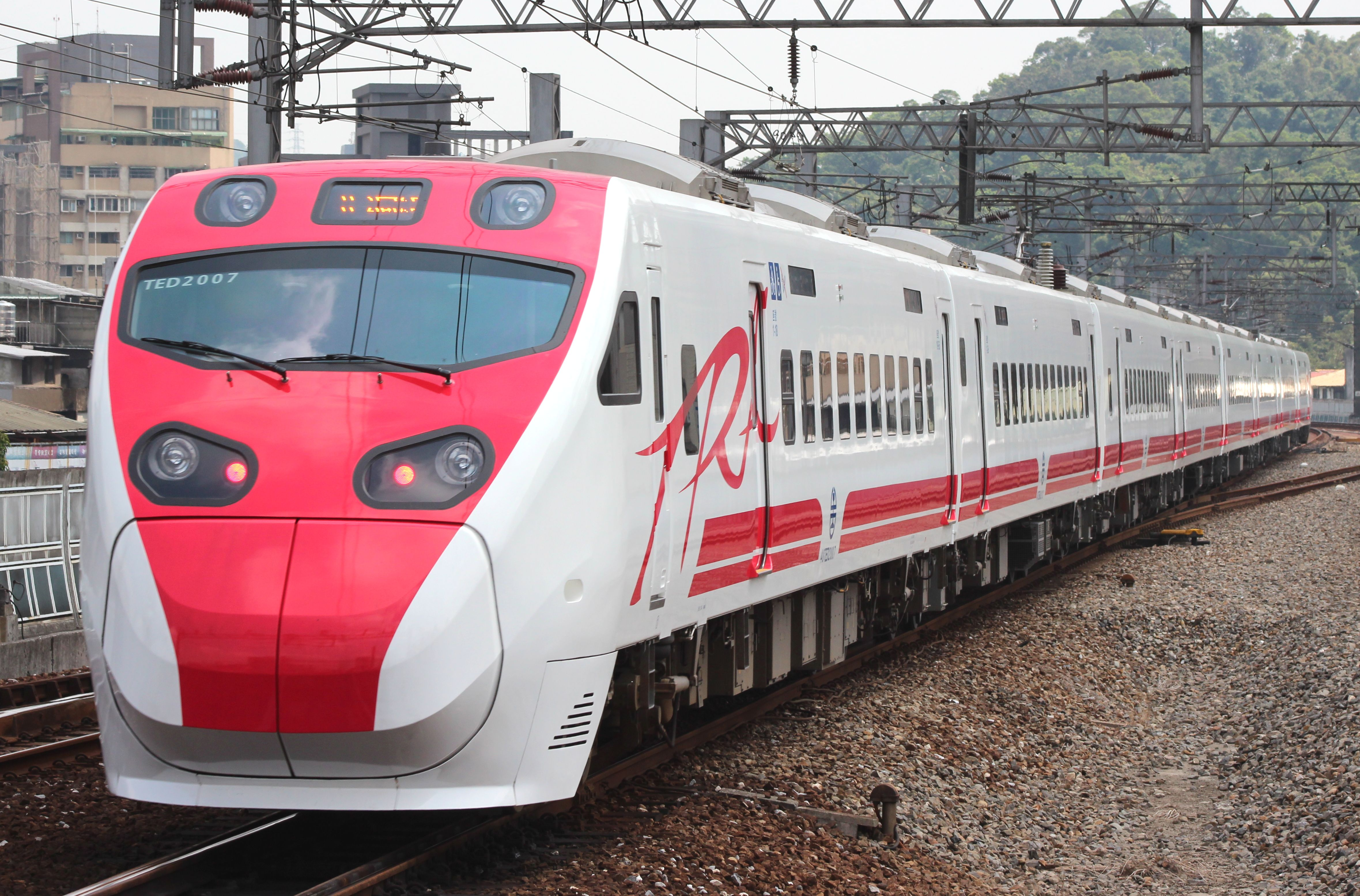 A Taiwan Railways TEMU2000 series EMU at Xizhi Station